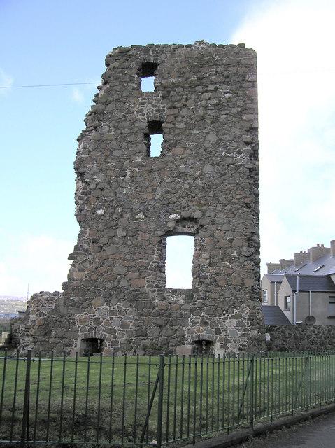 Olderfleet, a four-storey tower house supposedly built by the Scots Bisset family in the 13th Century.